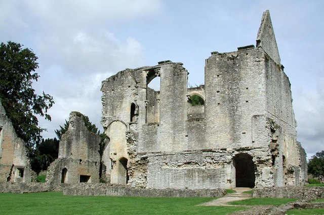 Minster Lovell Hall, Oxon - Ruins